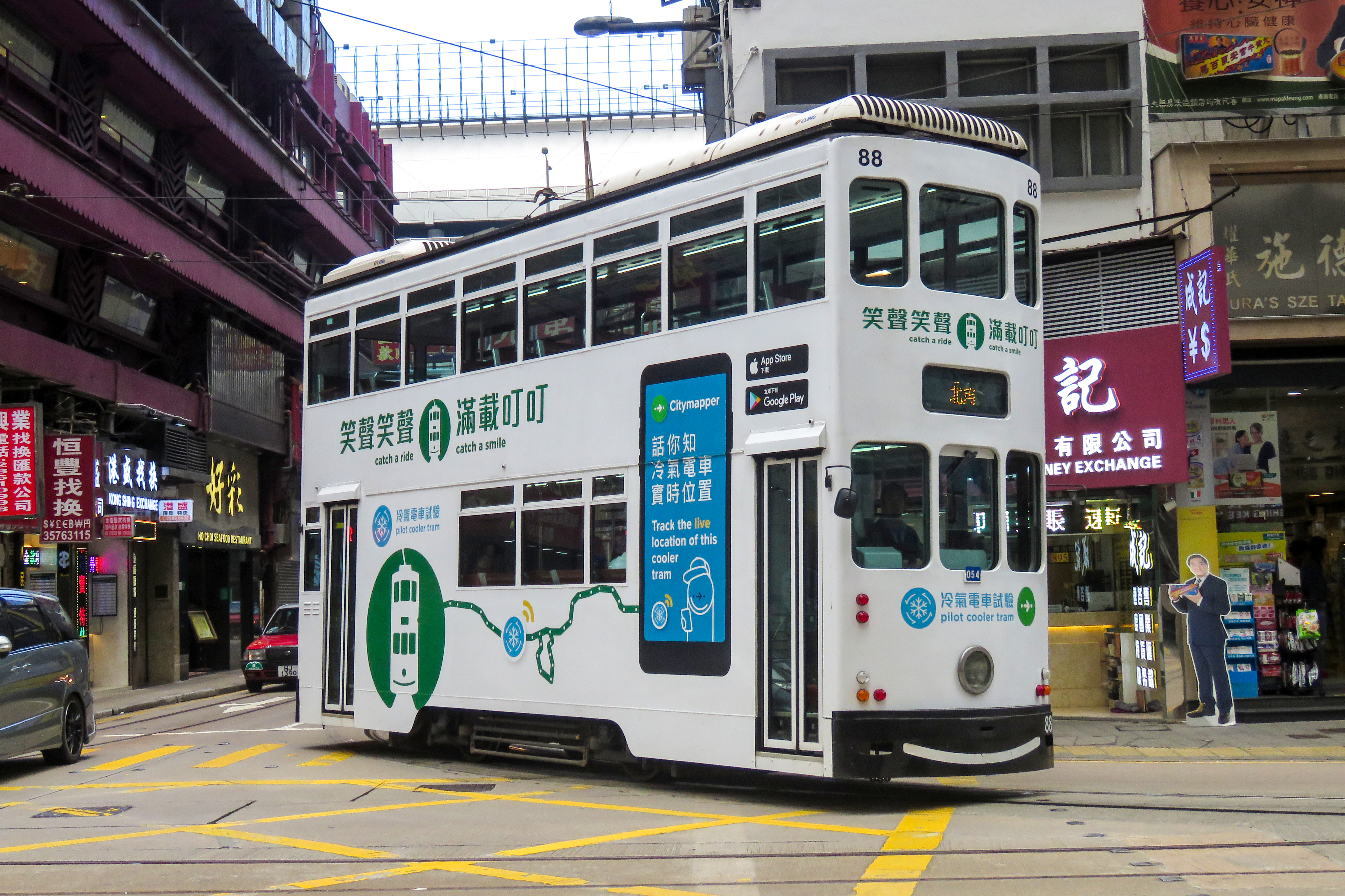 Starting a journey to North Point.